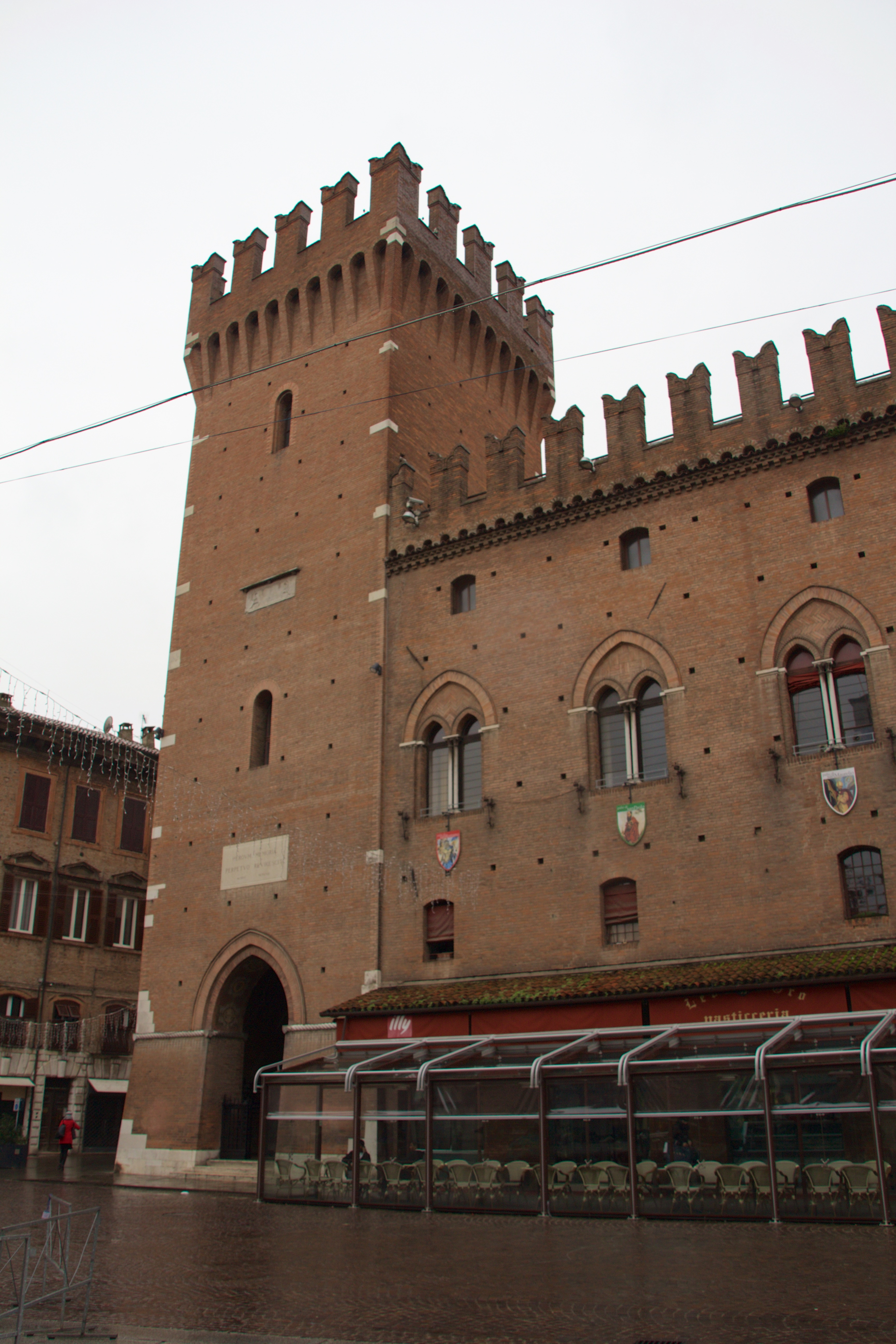 Ferrara, Italy